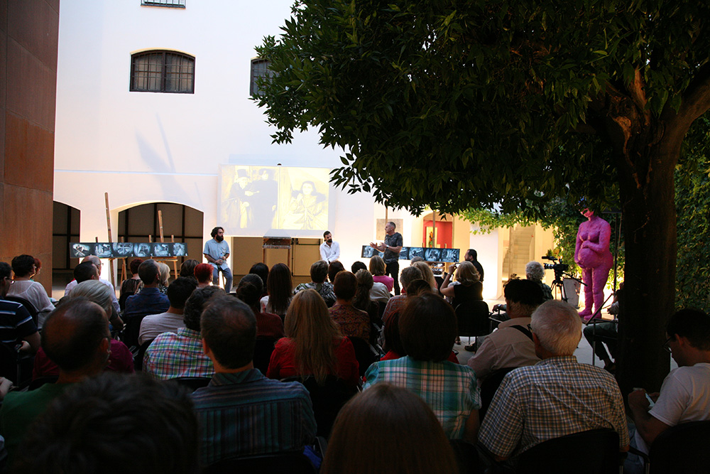 Cinema cycle in the Museum Jorge Rando